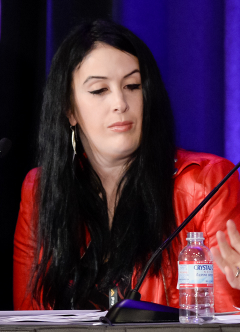 "Raid on Rise: Narrative Creation on 'Rise of The Tomb Raider' Rhianna Pratchett | Writer, Independent John Stafford | Lead Narrative Designer, Crystal Dynamics Cameron Suey | Narrative Designer, Crystal Dynamics Tore Blystad | Performance Director, Crystal Dynamics Jeff Adams | Senior Story Artist, Crystal Dynamics Noah Hughes | Creative Director, Crystal Dynamics Location: Room 3016, West Hall Date: Tuesday, March 15 Time: 10:00am - 11:00am"